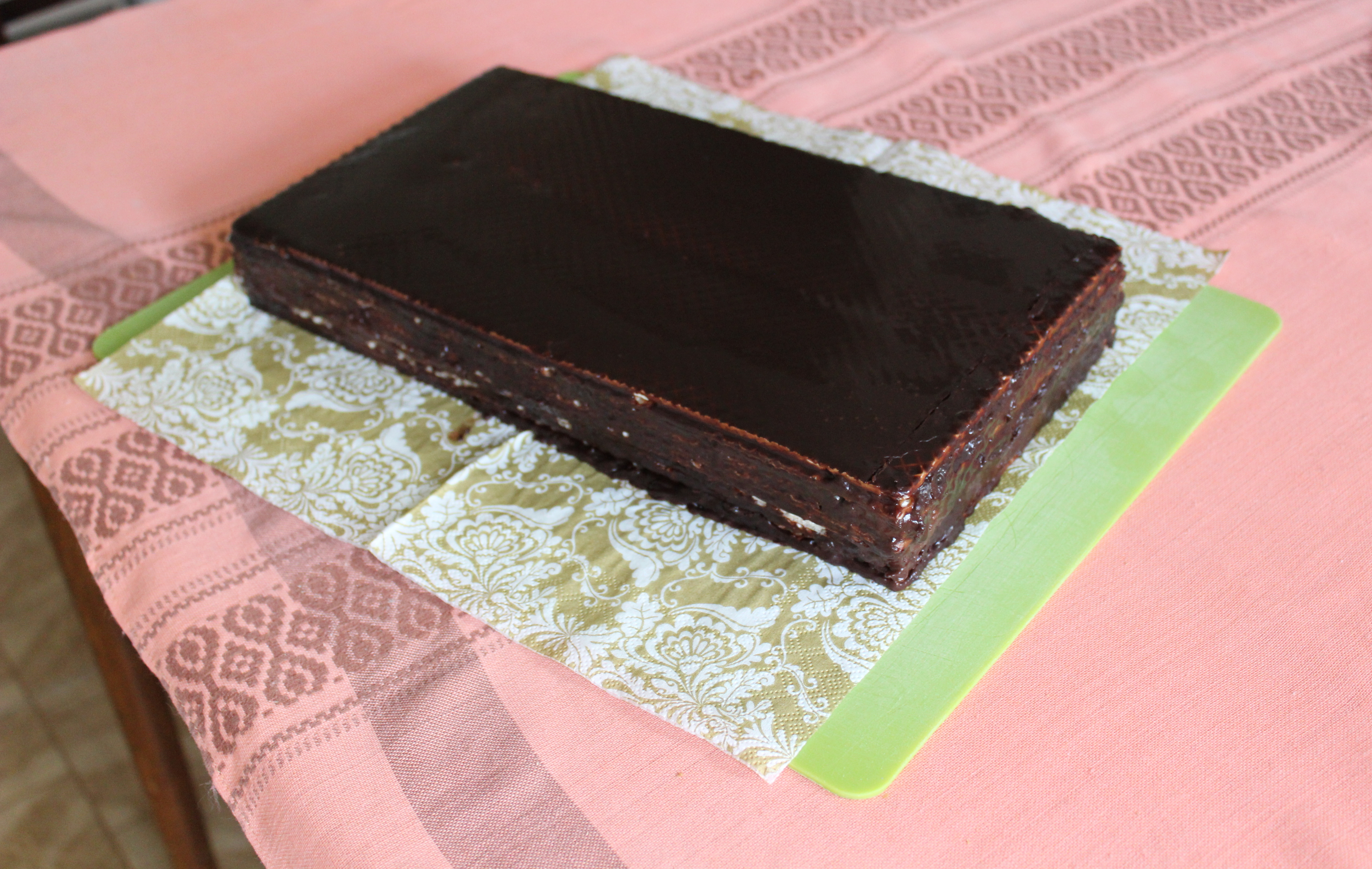 Pischinger cake.